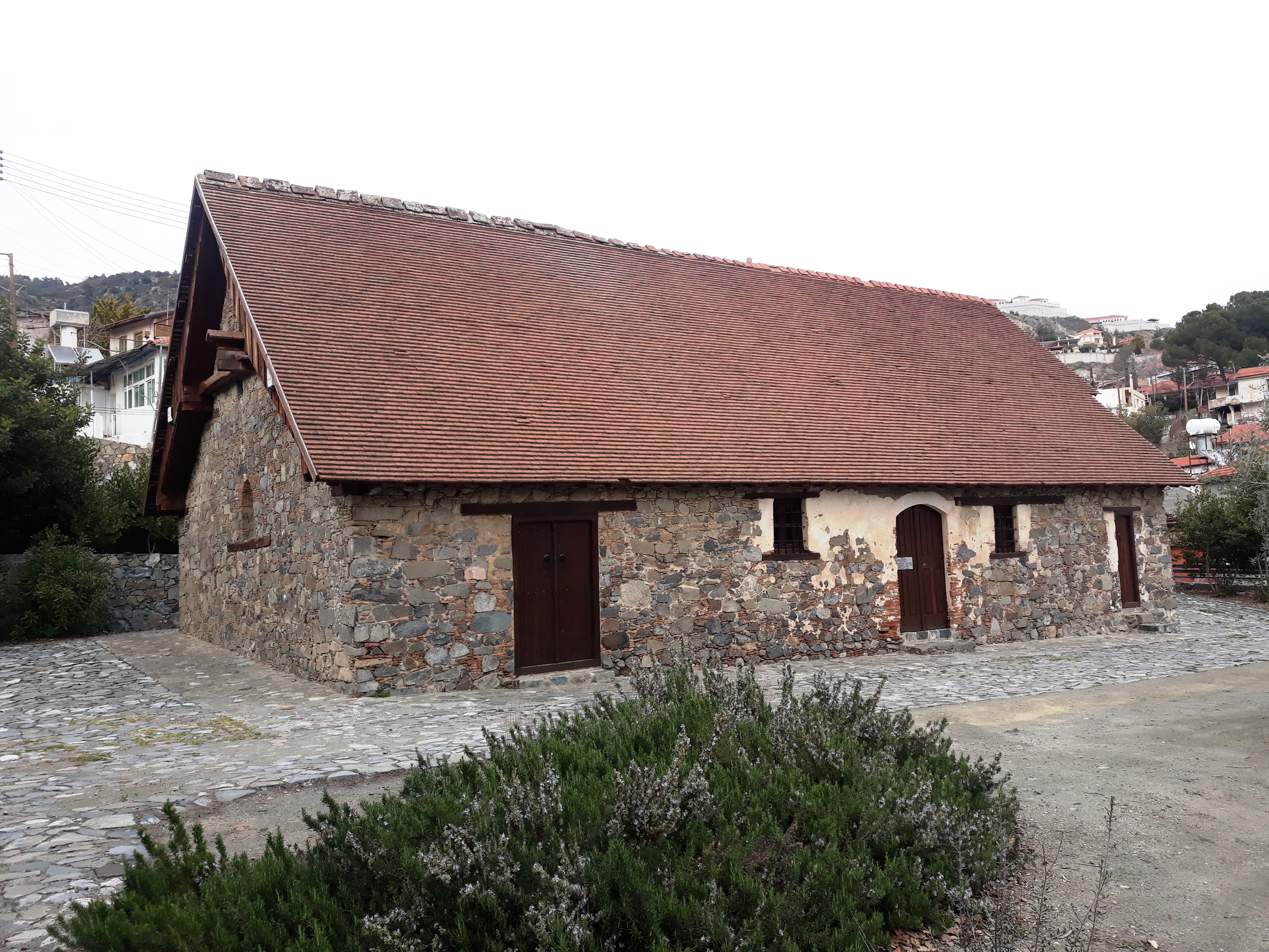 The Orthodox Holy Temple of Virgin Mary the Catholic at Pelendri.